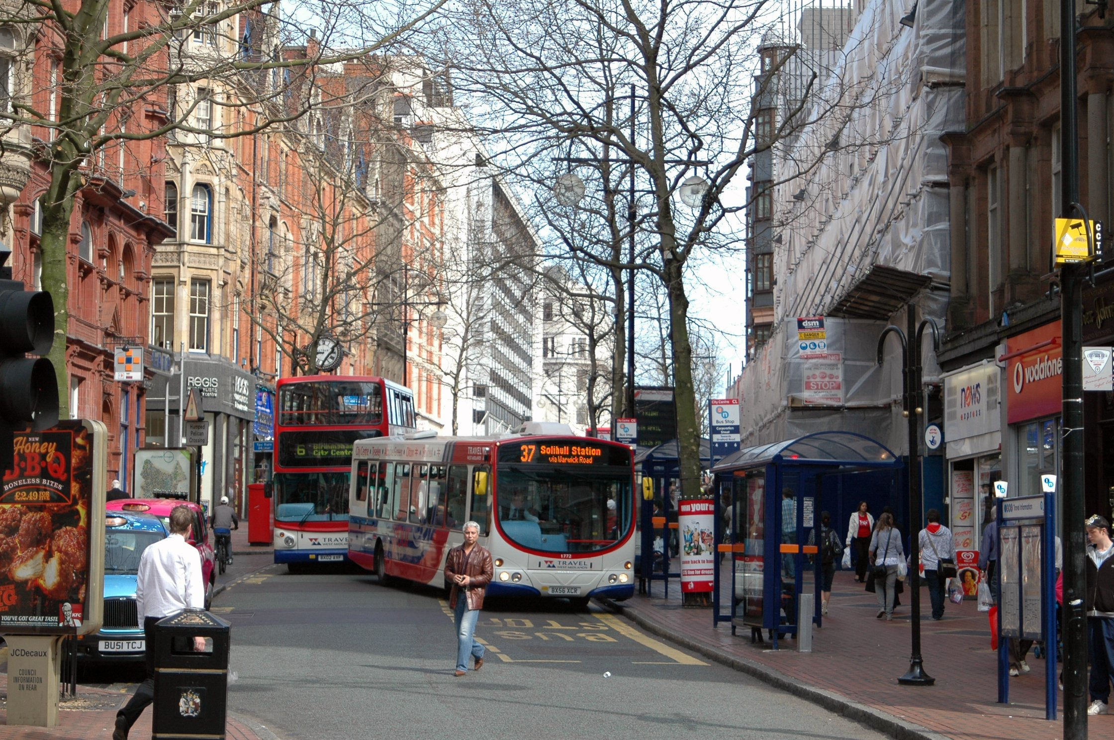 This is Corporation Street from the ramp leading to the Pallasades Shopping Centre in Birmingham, England